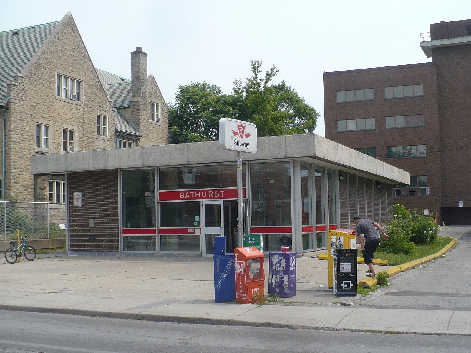 Markham Street exit/entrance at Bathurst subway station in Toronto